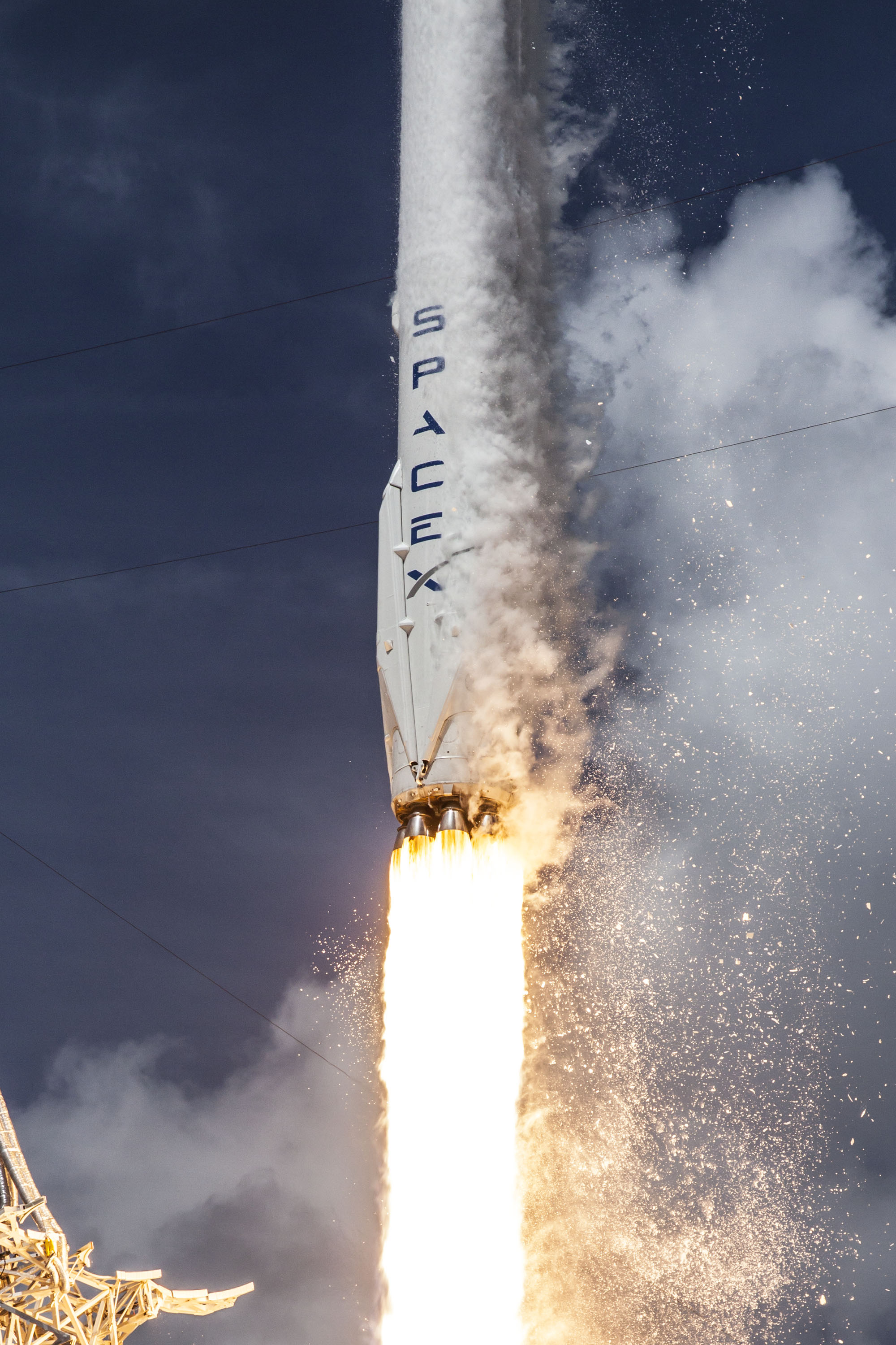 SpaceX's Falcon 9 rocket launched the ORBCOMM OG2 Mission 1 on July 14, 2014.